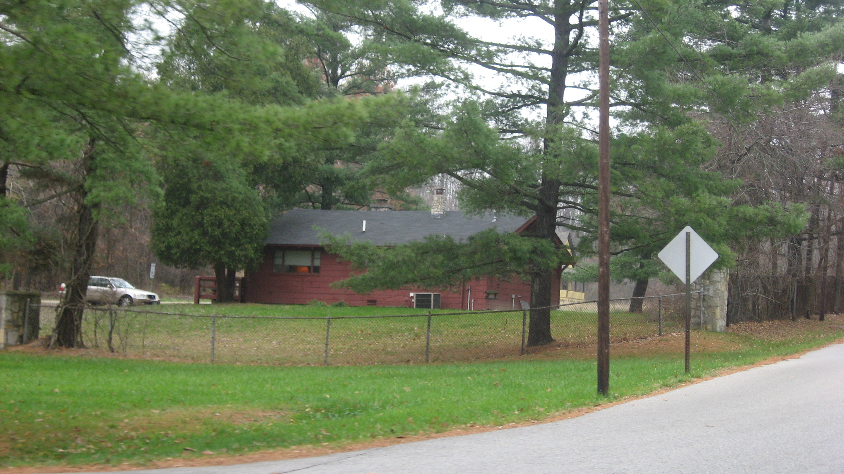 Buildings on the eastern edge of the Good Fellow Club Youth Camp, located at 700 Howe Road in Porter, Indiana, United States. The camp complex is listed on the National Register of Historic Places.